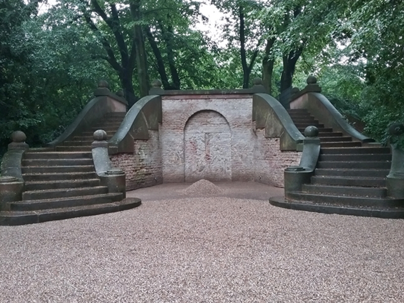 Icehouse in Castle Park Biesdorf